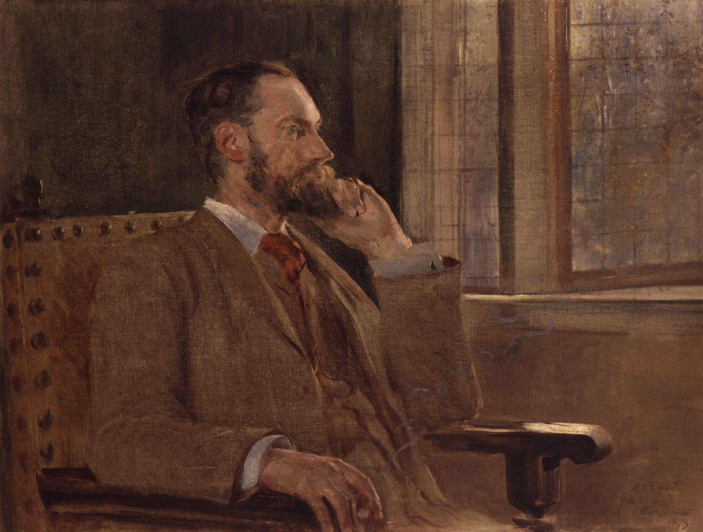 Matthew Ridley Corbet, by John McLure Hamilton (died 1936), given to the National Portrait Gallery, London in 1920. All images in this batch have been confirmed as author died before 1939 according to the official death date listed by the NPG.